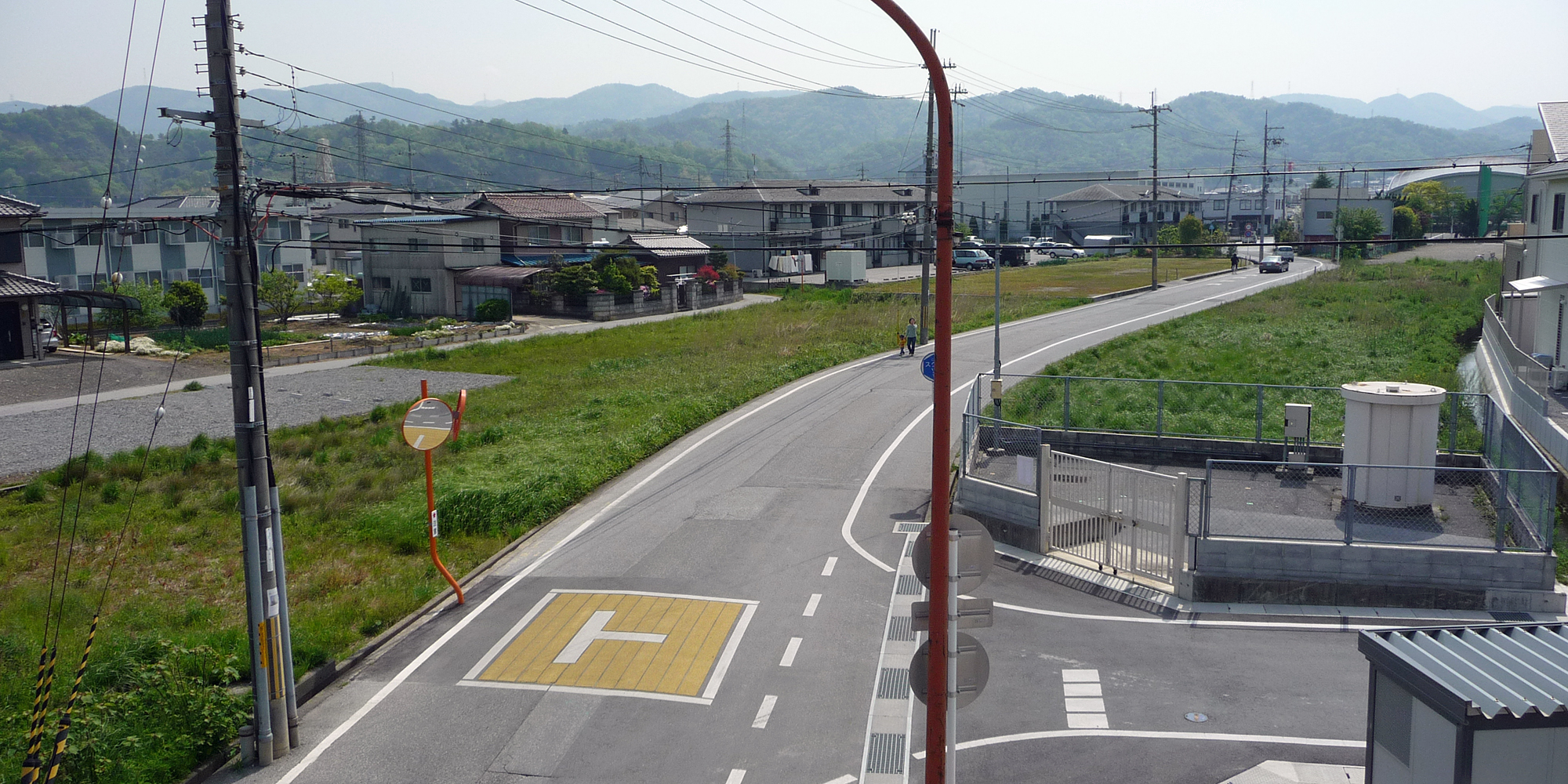 Hikone Serikawa Station east,Ohmi Railway.